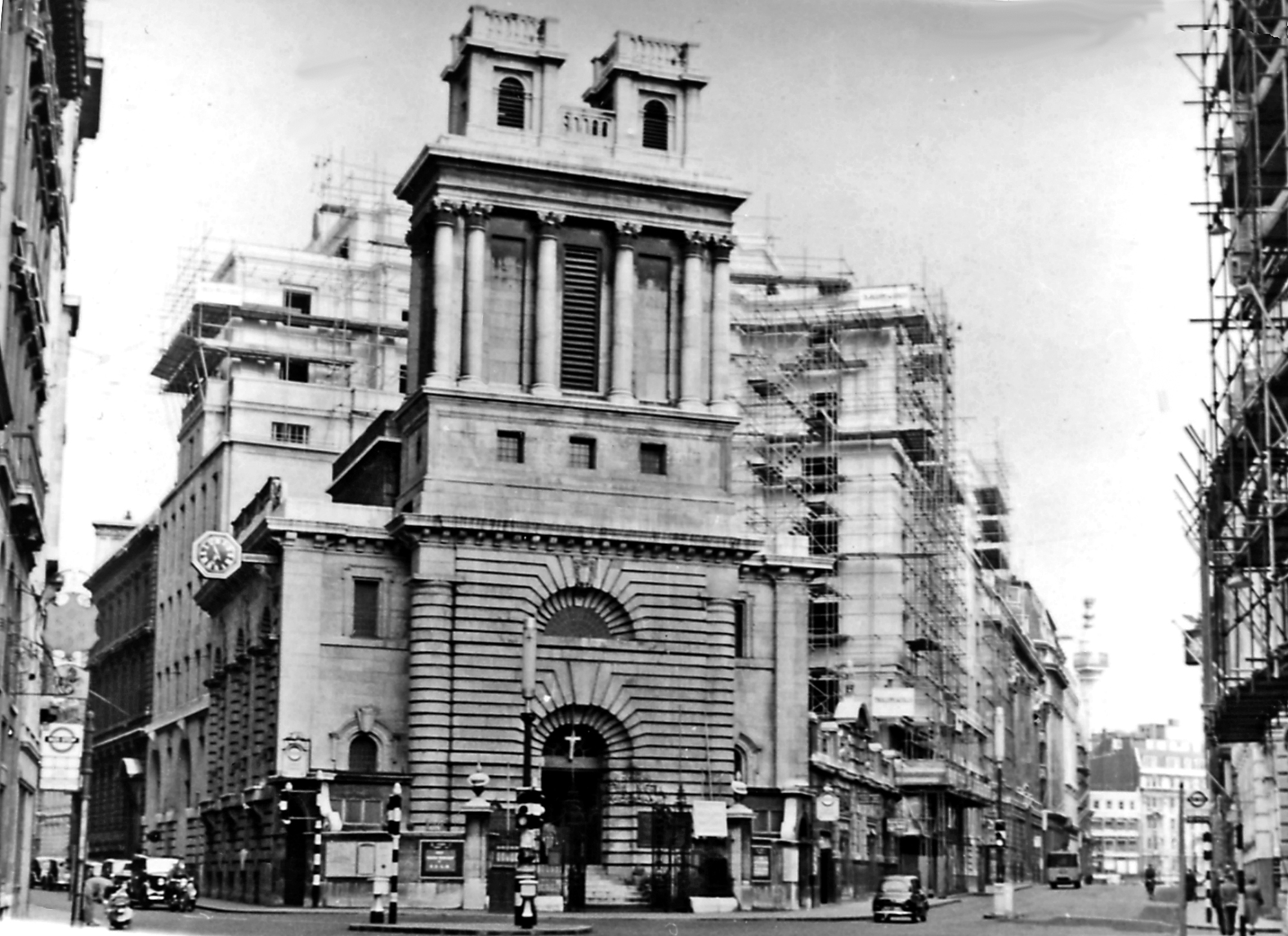 Near Bank Intersection, City of London: Lombard Street left, King William Street right. The view is SE. It is almost 7.0 p.m., so the City is emptying.